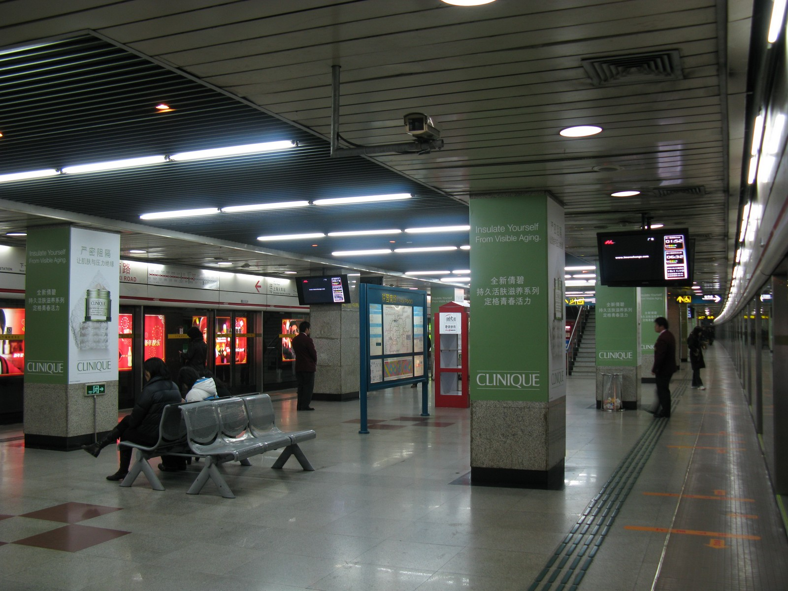 Line 1 Platform of South Shaanxi Road Station